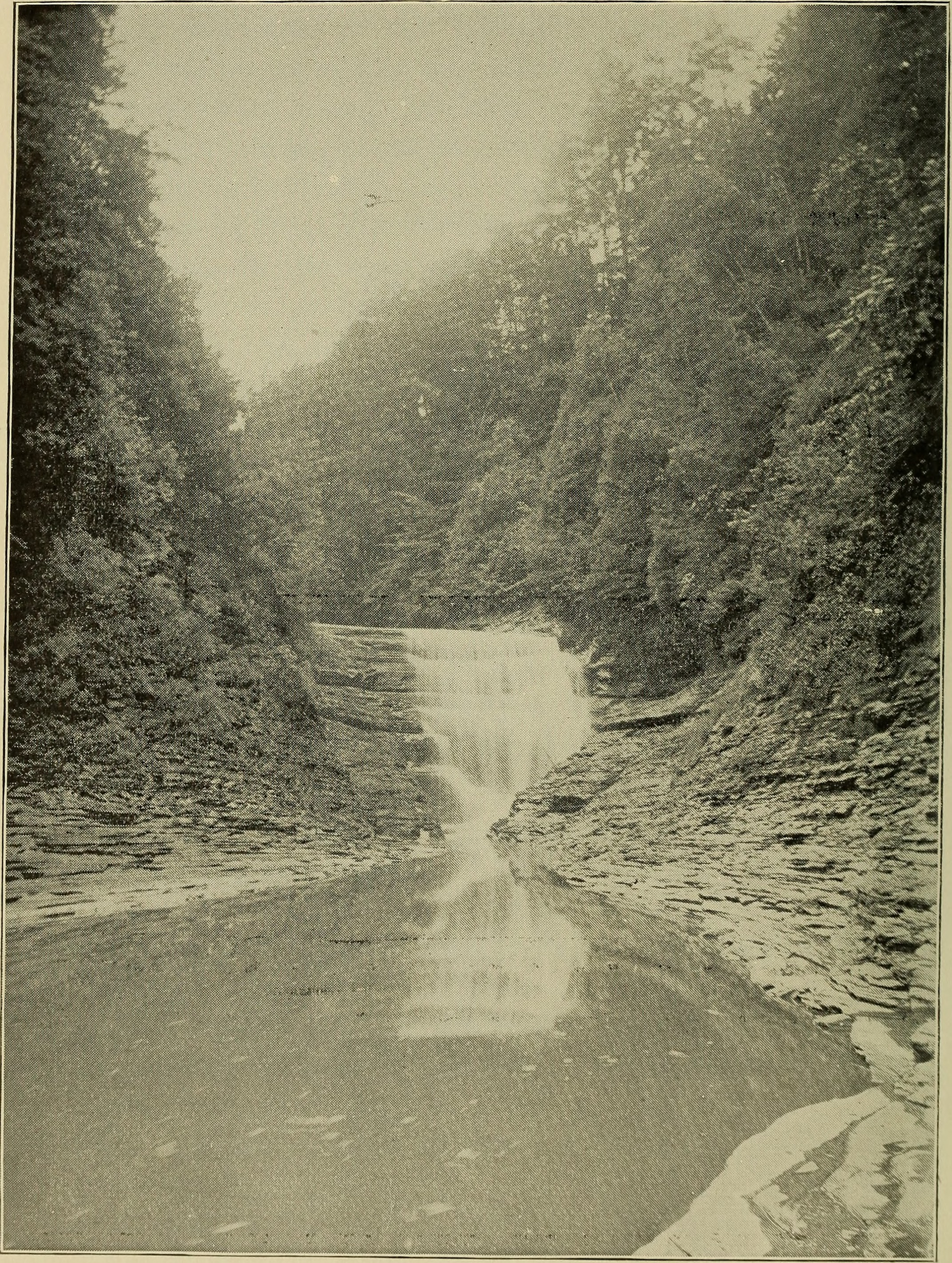 Title: Annual report of the Regents Identifier: annualreportofr471894newy Year: 1889 (1880s) Authors: New York State Museum; University of the State of New York. Board of Regents Subjects: New York State Museum; Science Publisher: Albany : J. B. Lyon, State Printer Text Appearing Before Image: PLATE 7. Text Appearing After Image: Falls Over Utica Slate in the Ravine Behind Canajoharie, N. Y.